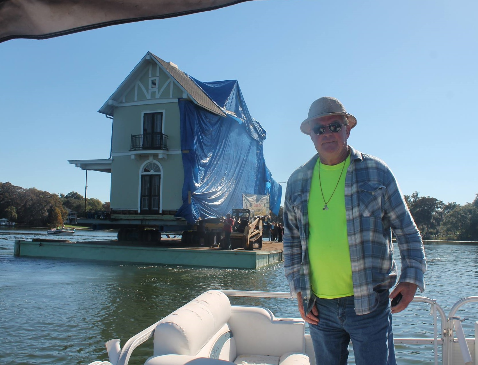 Max Moody III and a barge from Dell Marine Photograph by Robin Moody with permission to use in Wikipedia. Use of this image must acknowledge Robin Moody.